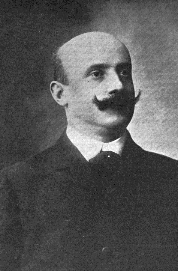 French Finance and Prime Minister Joseph Caillaux